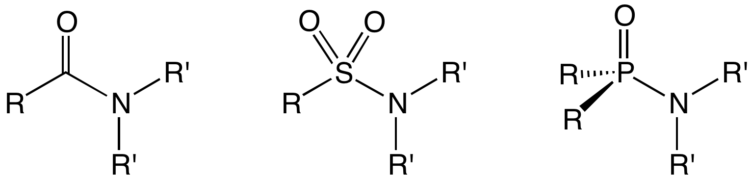 three kinds of amides